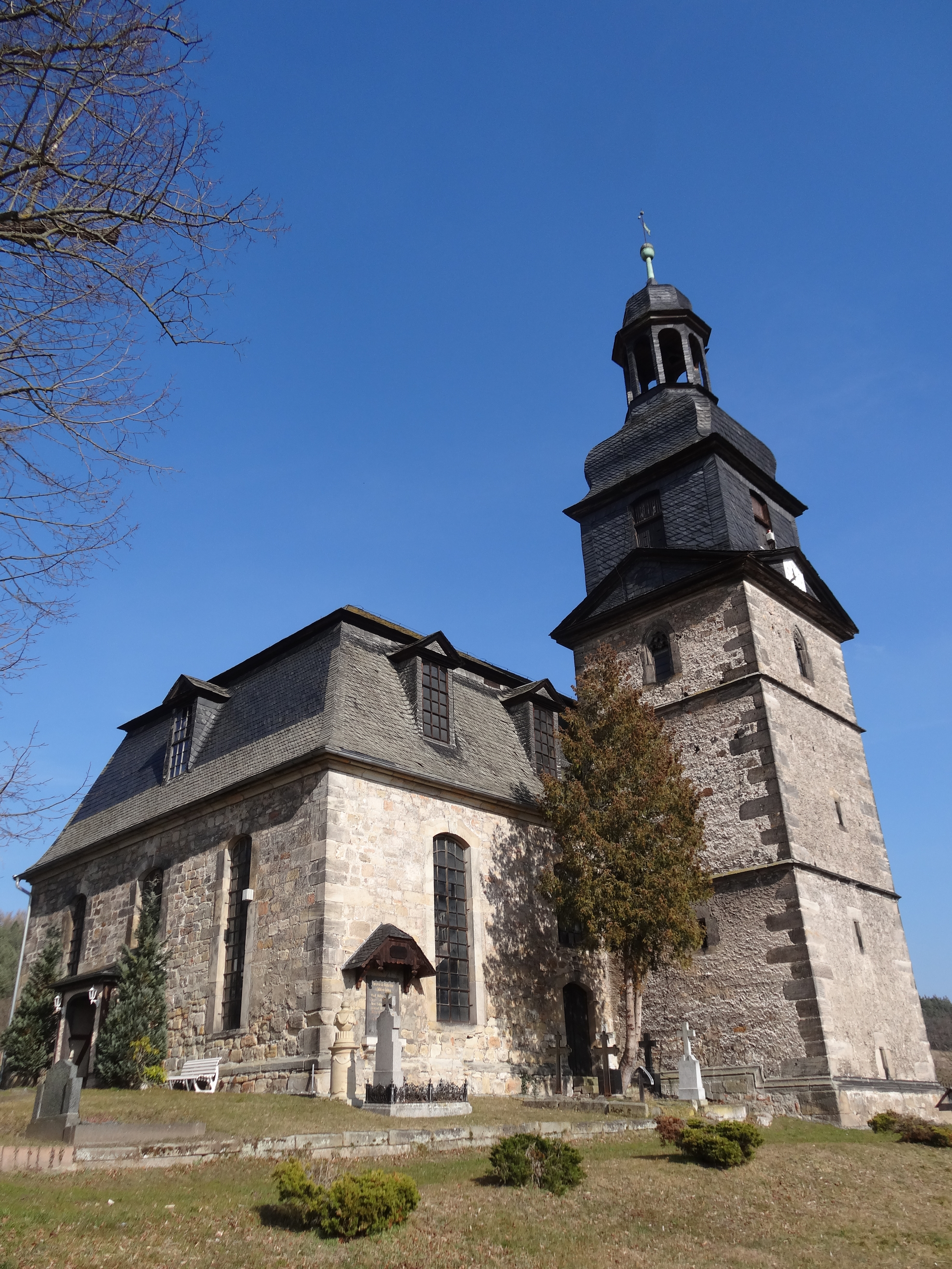 Church in Quittelsdorf, Thuringia, Germany